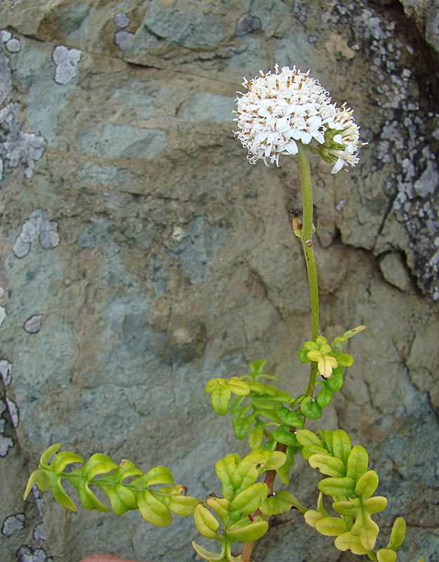 Known as Borlon de Alfora along coastal Chile. In context at